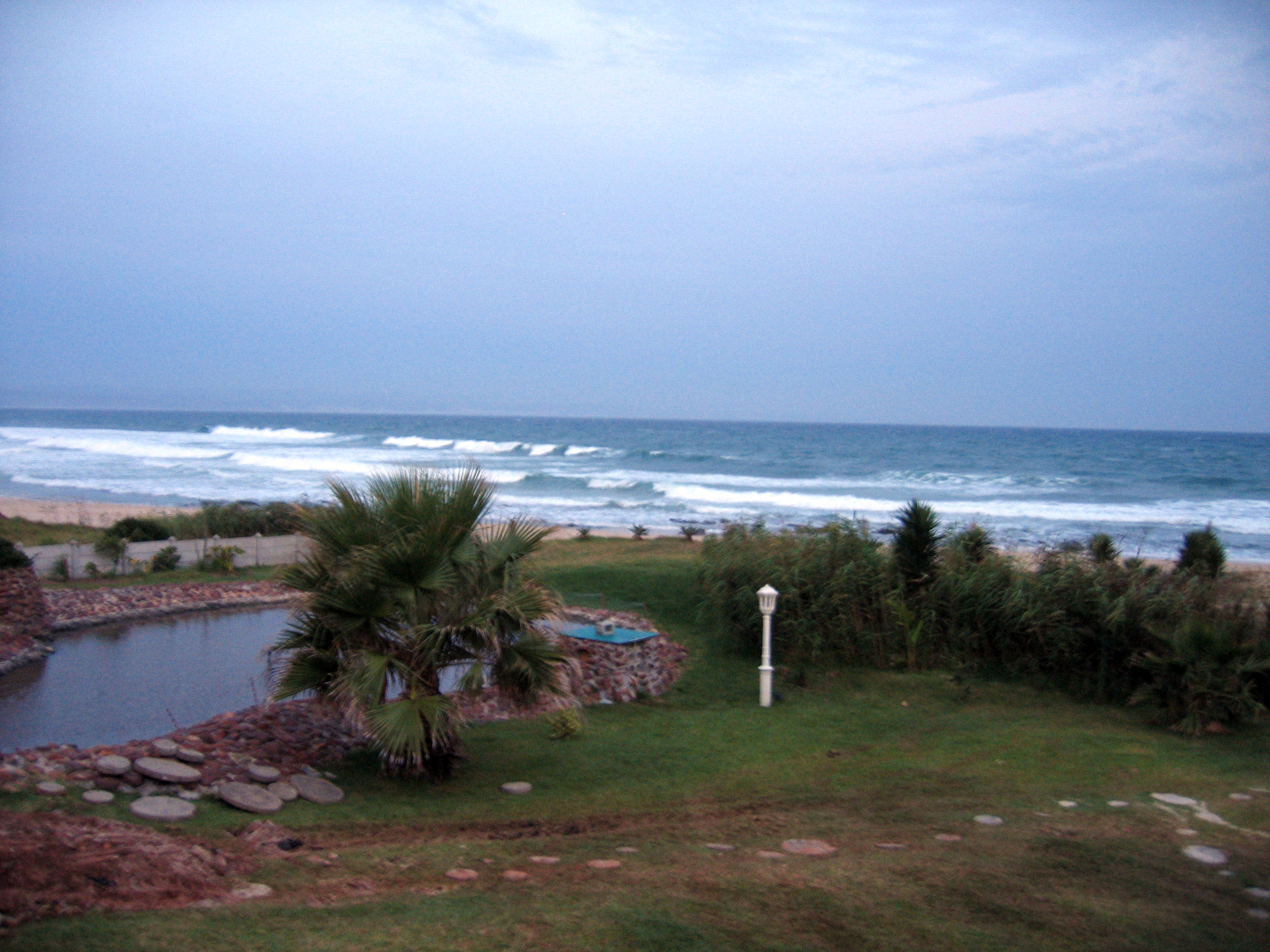 Jeffreys Bay South Africa beach view